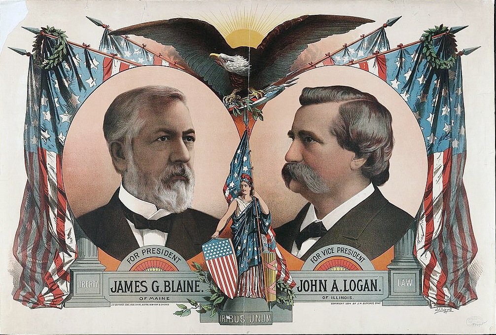 For president, James G. Blaine. For vice president, John A. Logan. chromolithograph.